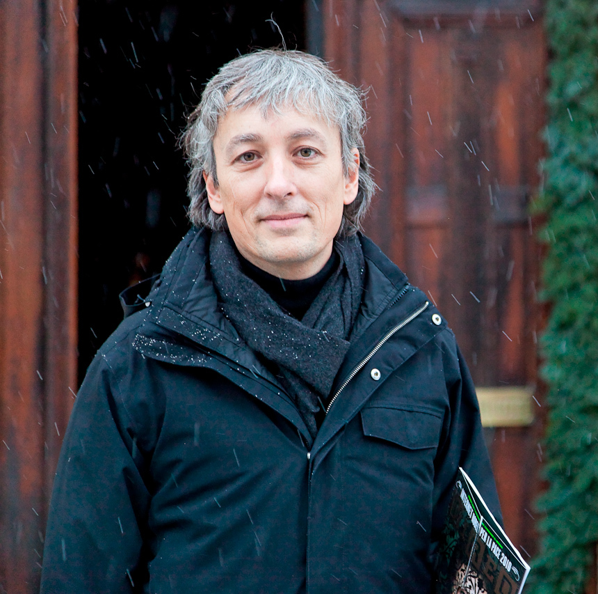 Italian journalist Riccardo Luna